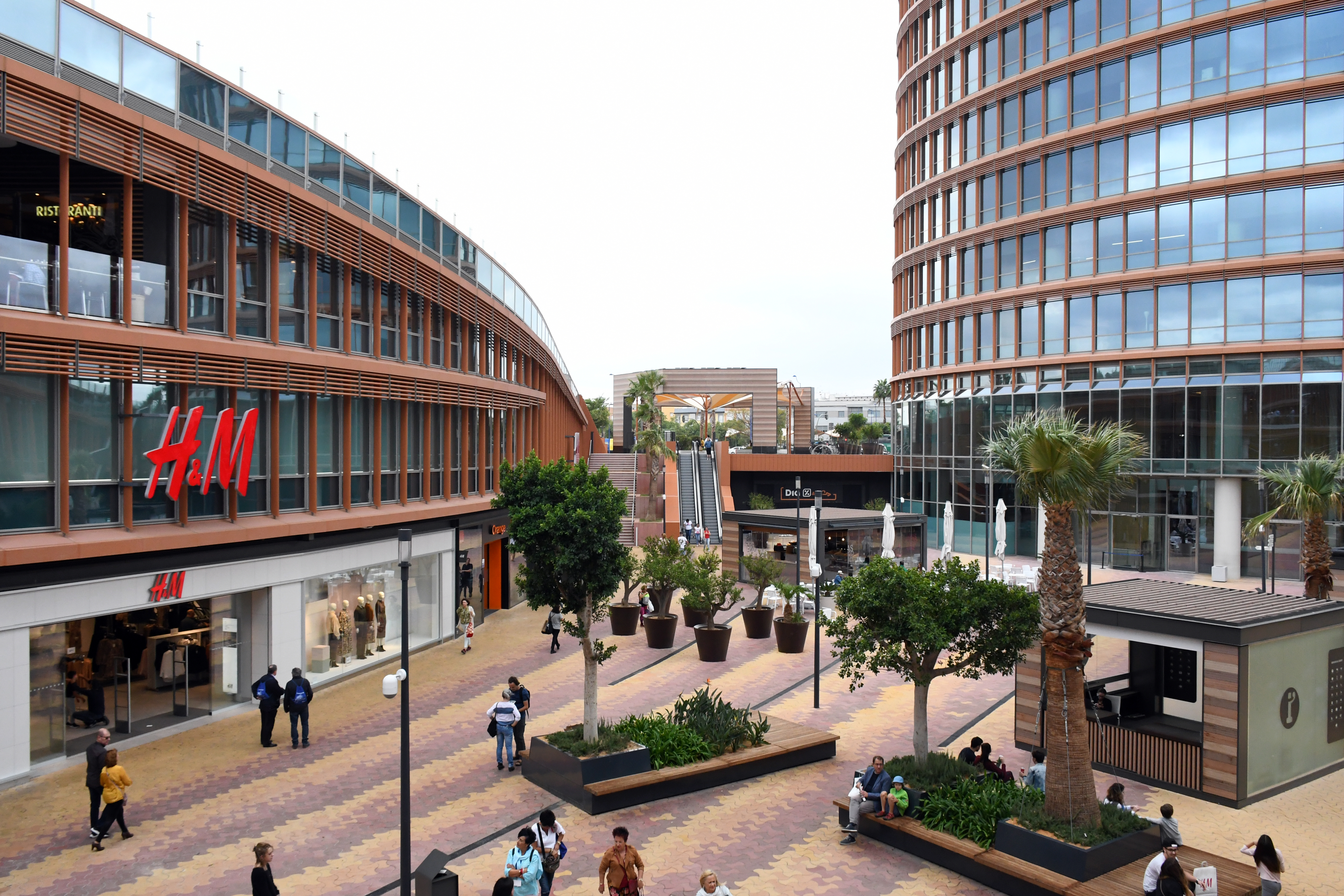 The shopping mall Torre Sevilla, in Seville (Spain) and the first stories of the Sevilla Tower on the right.